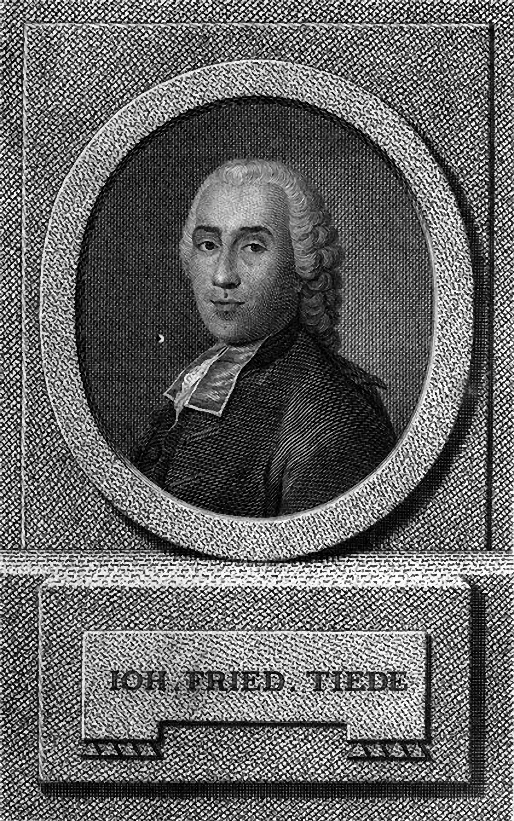 Johann Friedrich Tiede (1732-1796) Protestant theologian from Germany